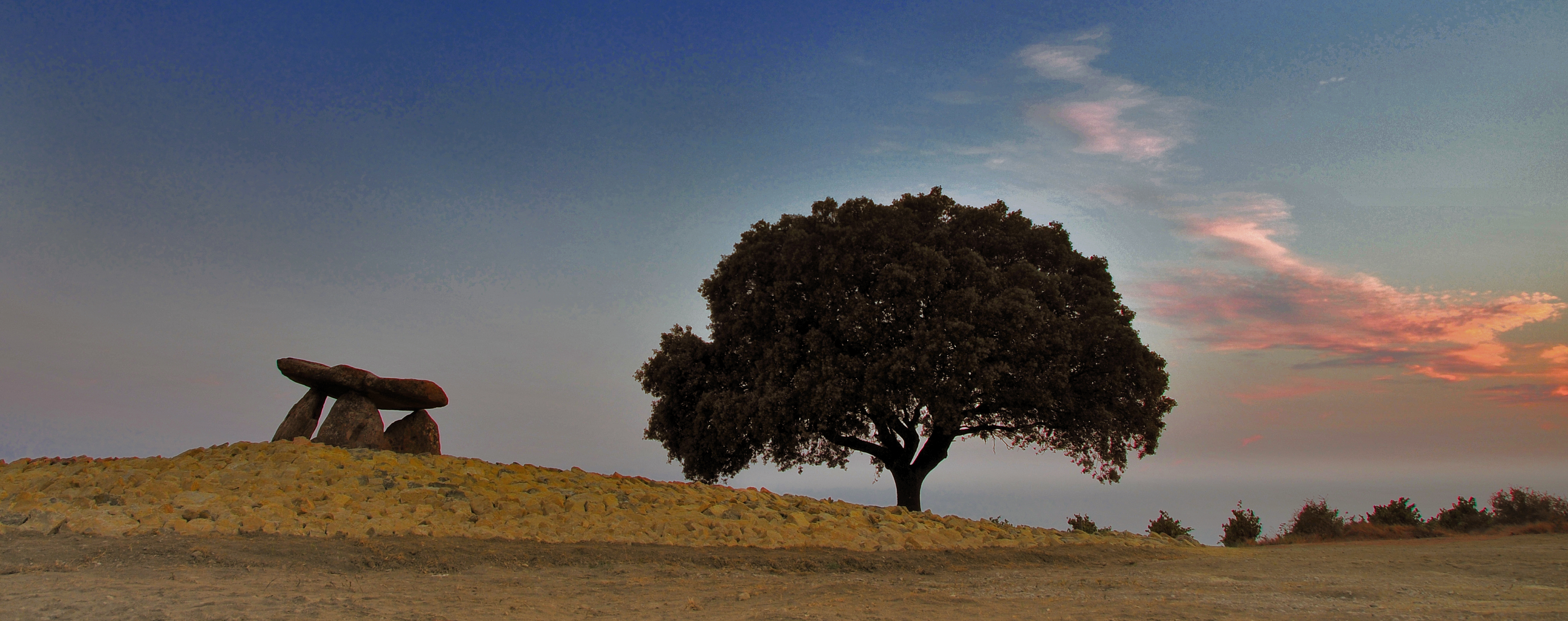 Sorginaren Txabola named dolmen.